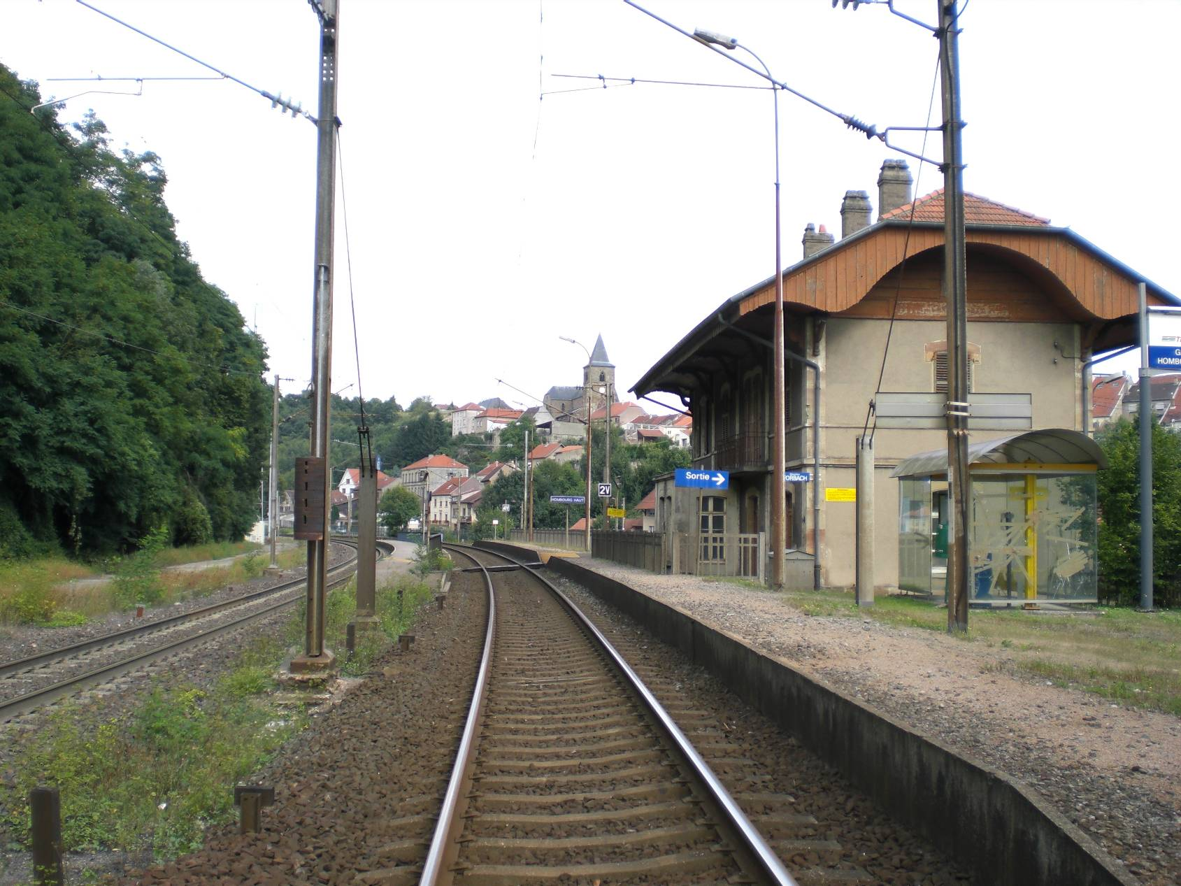 railway station Hombourg-Haut, Lorraine